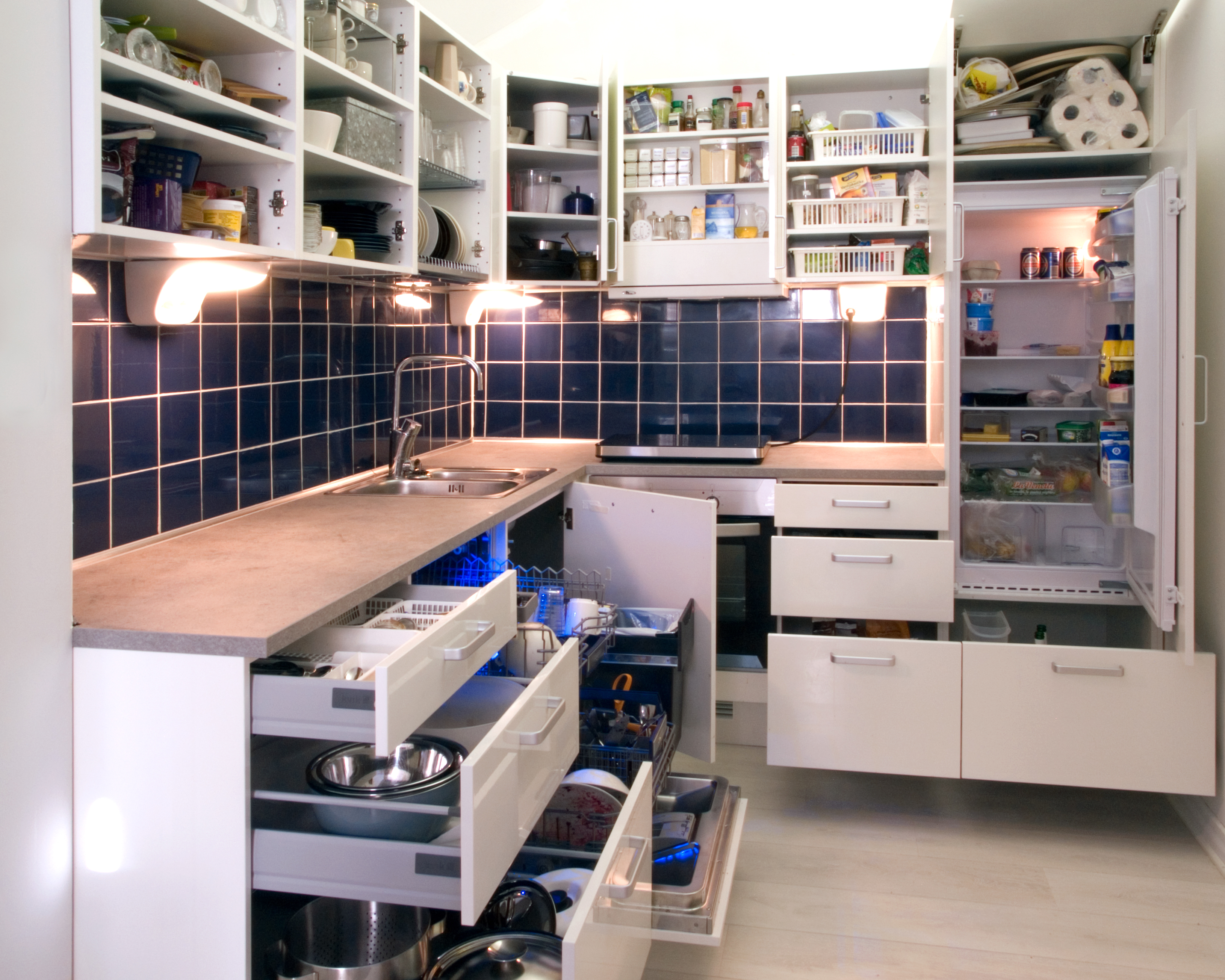 Scandinavian-style glossy white kitchen cabinets, shown with all doors and drawers open. See another similar photo with doors closed.